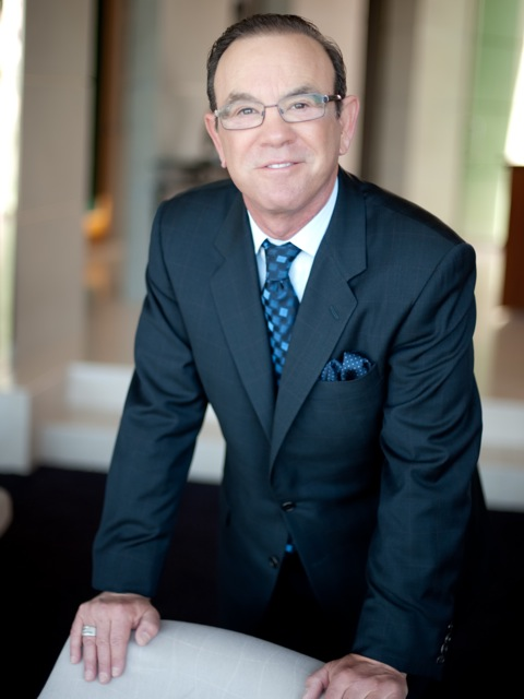 Half-body shot of Steven Myers, founder of SM&A.